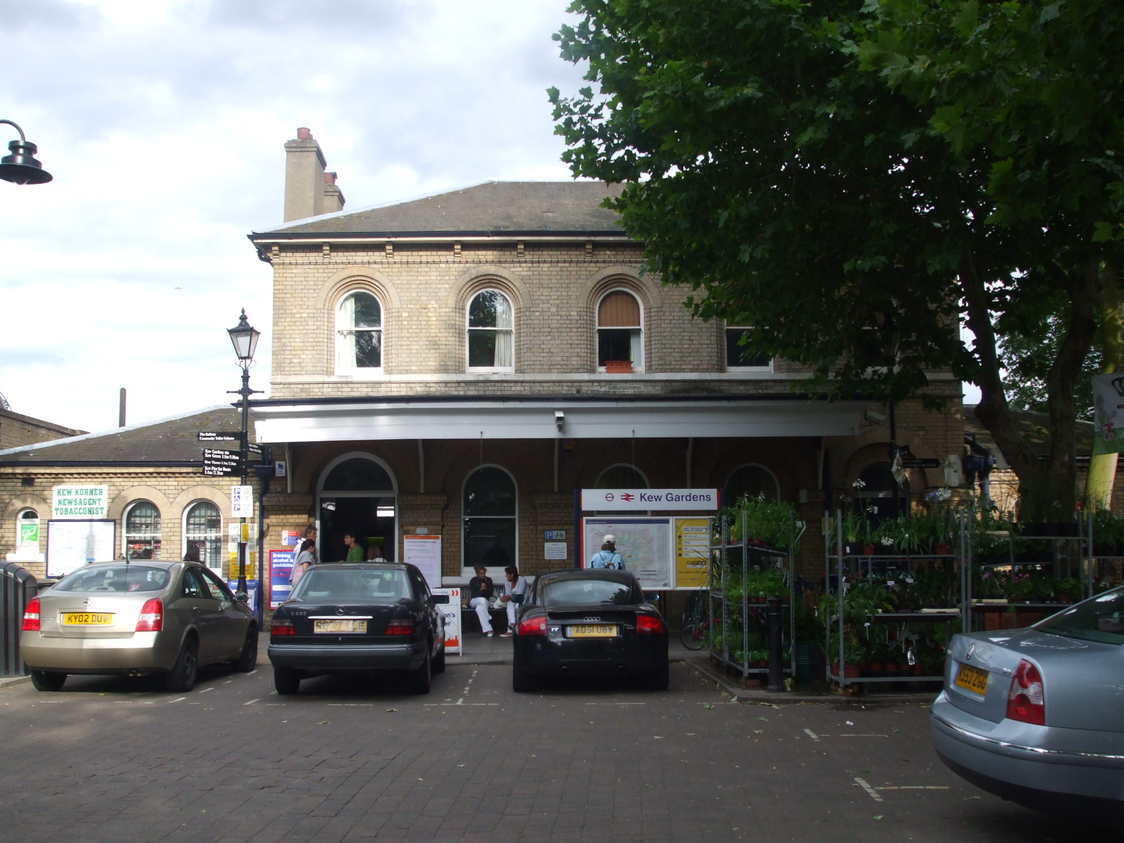 Kew Gardens station main building to the west of the tracks